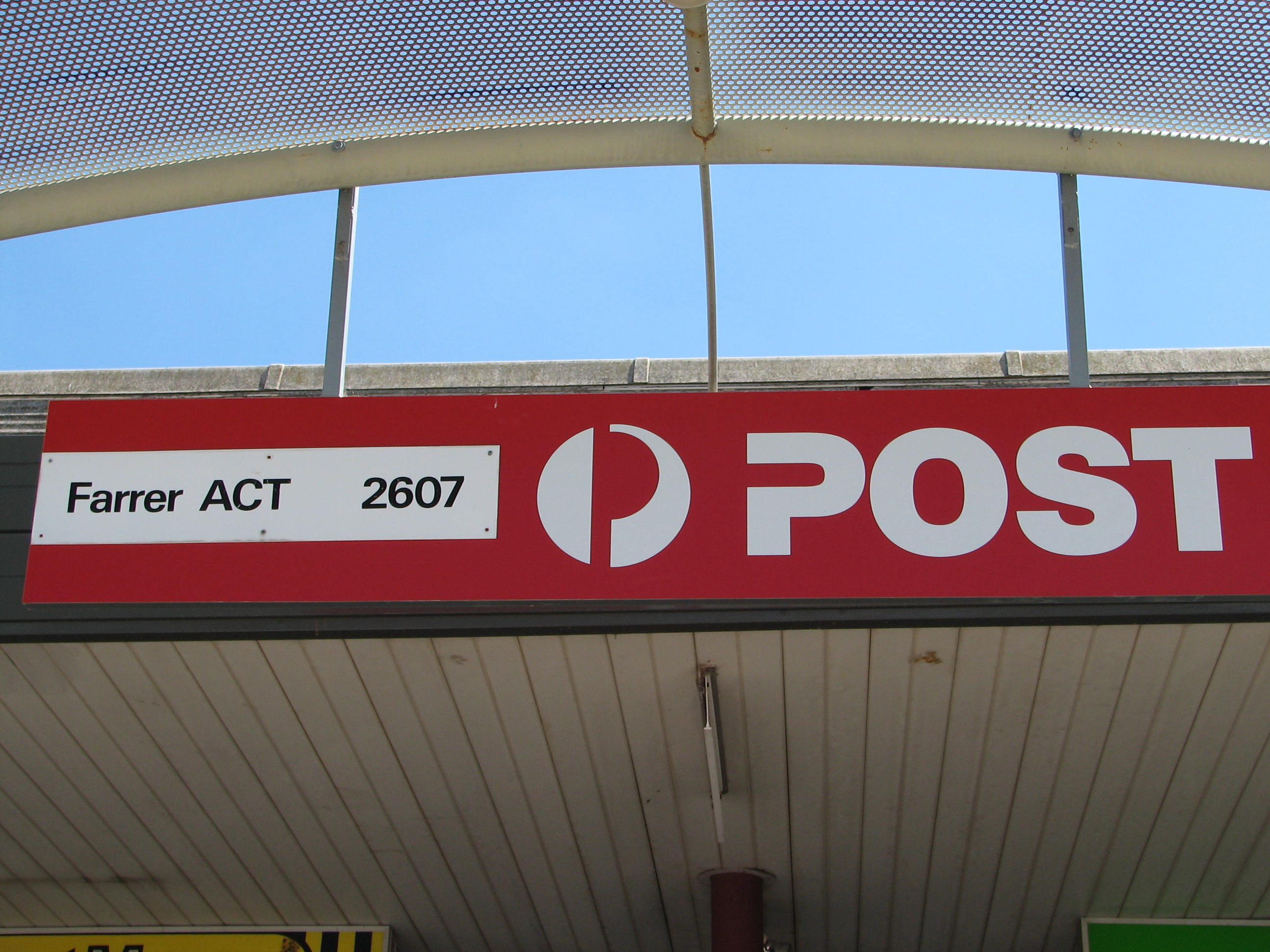 Post code sign outside local shops in Farrer, Australian Capital Territory. Taken by me on 20th January 2007.